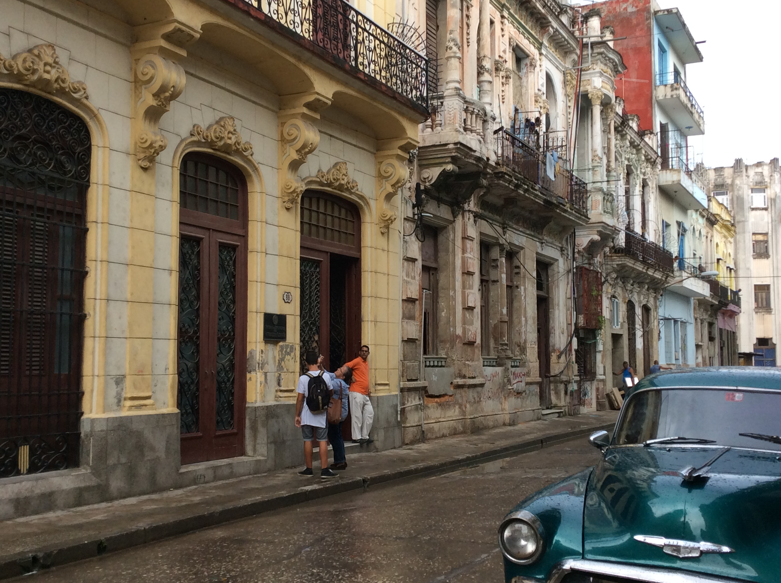 Charitable Society of the Natives from Catalonia, The Havana, Cuba